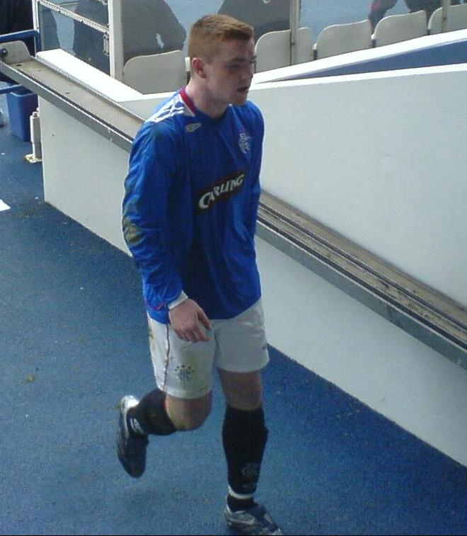 John Fleck, Rangers F.C. player.